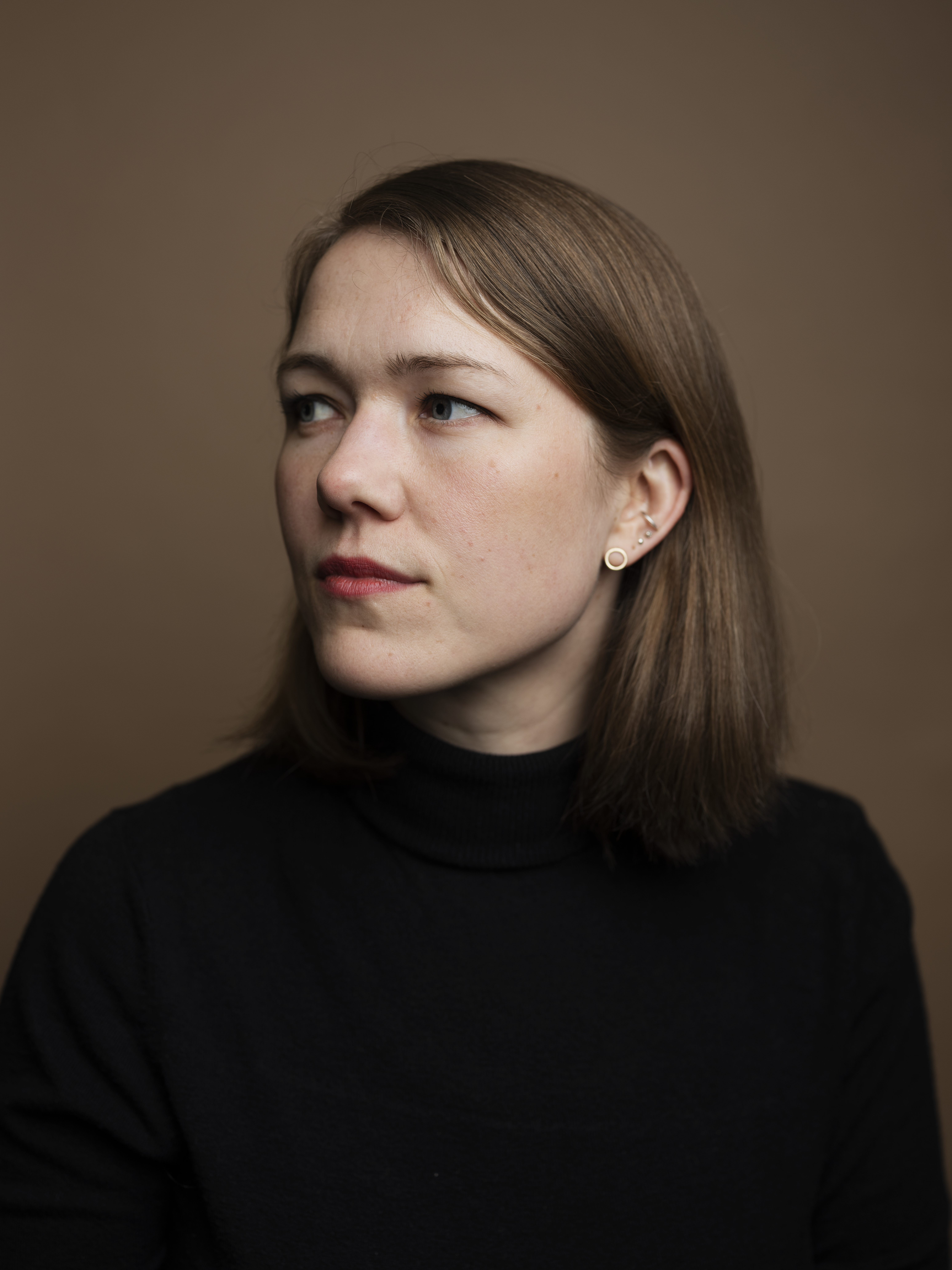 Une Aina Bastholm in 2020